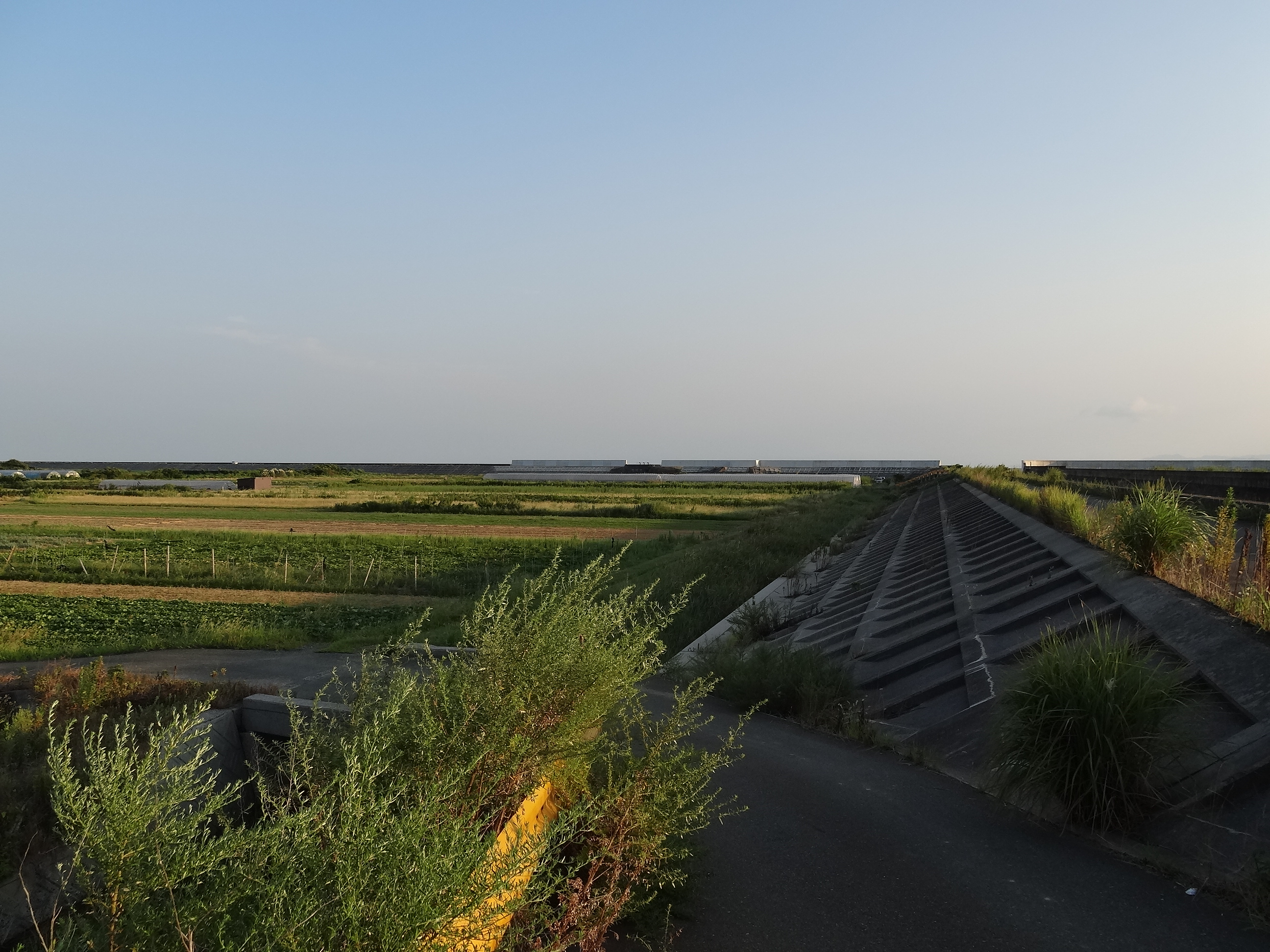 Habu Polder, in Sanyo-Onoda City, Yamaguchi Prefecture, Japan.